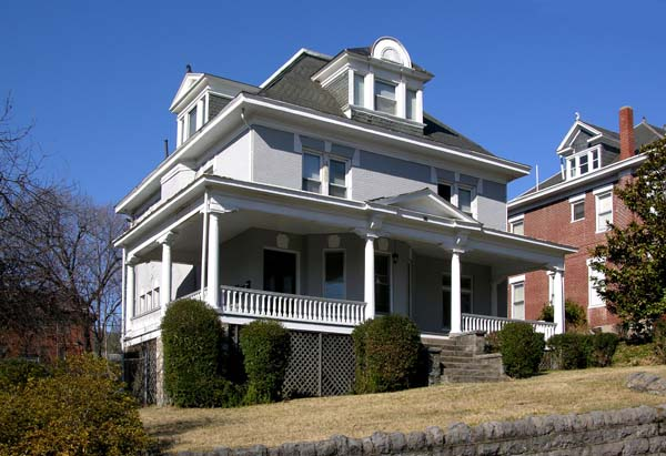 Southwest Historic District Roanoke, Virginia listed on the National Register of Historic Places in Roanoke, Virginia, USA. Example of typical four square style home present throughout the district.